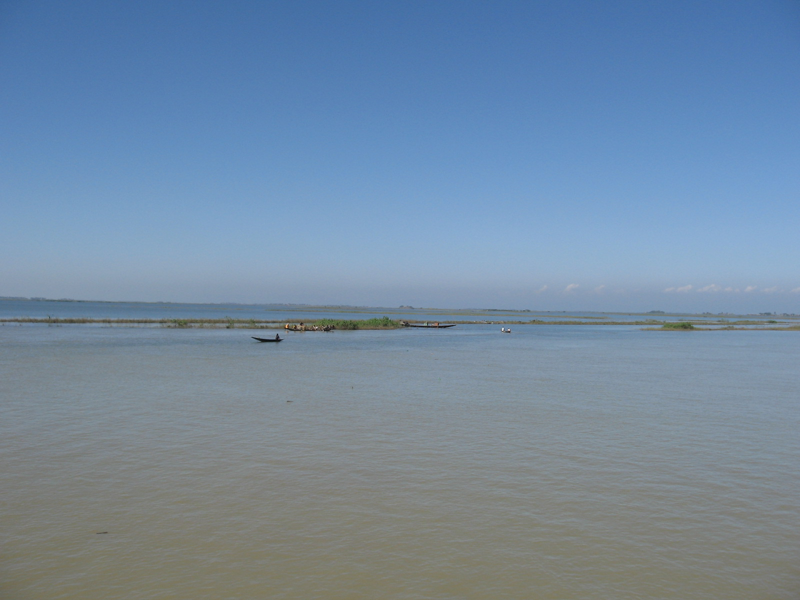 Alir Haor in Sunamganj in the haor region